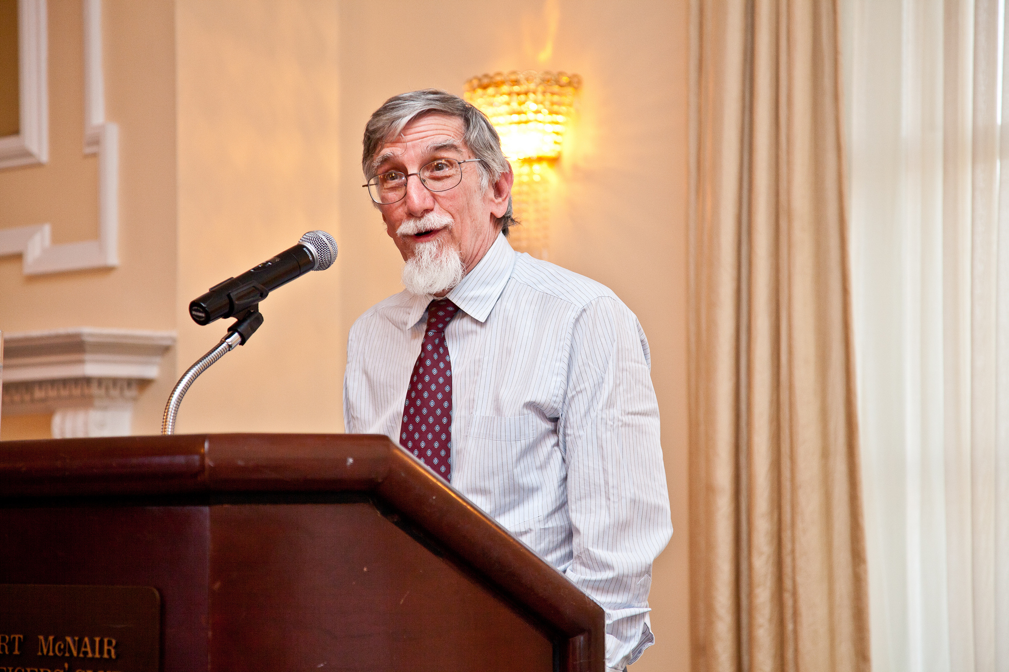 Dr. Robert Jervis of Columbia University gives a lecture entitled: "What do we know about deterrence?"